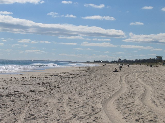 View north from Scarborough Beach